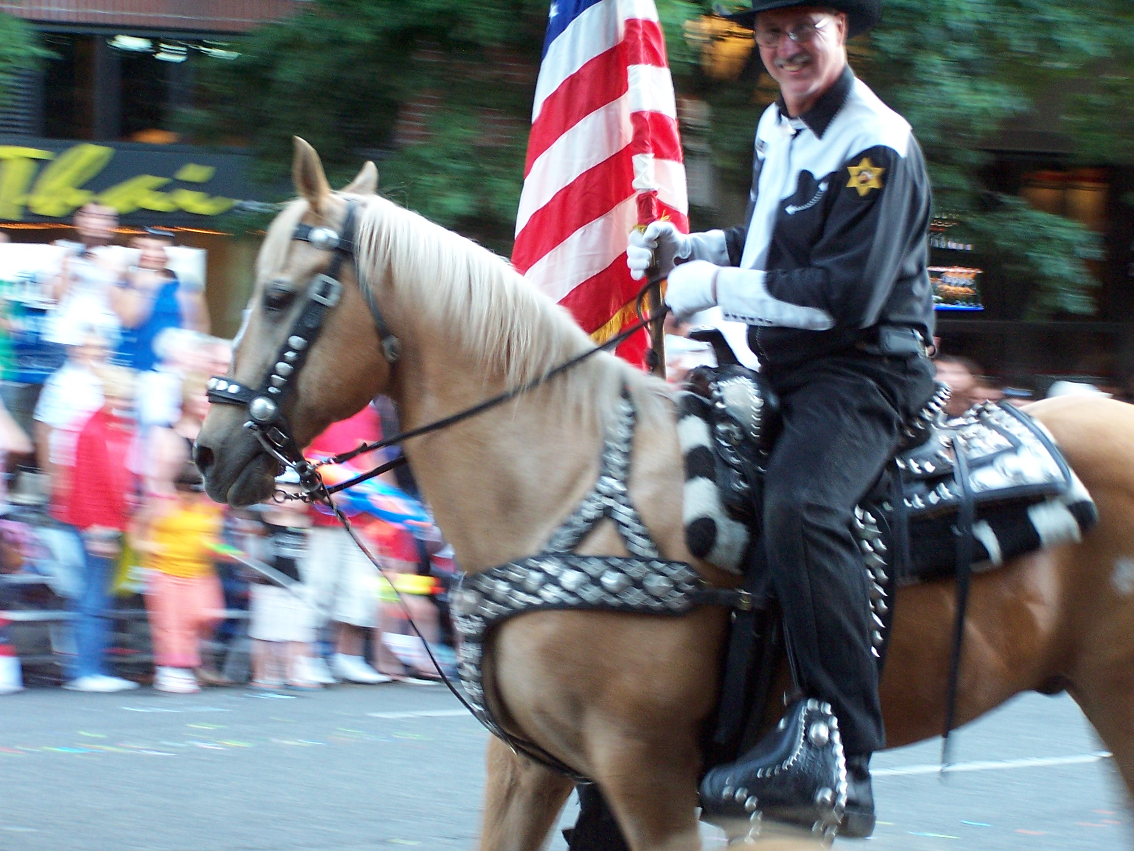 A horse in classic silver "parade horse" gear.